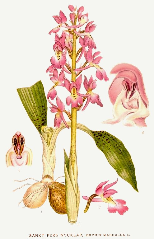 Orchis mascula L. Original Description Sankt Pers nycklar, Orchis masculus L.